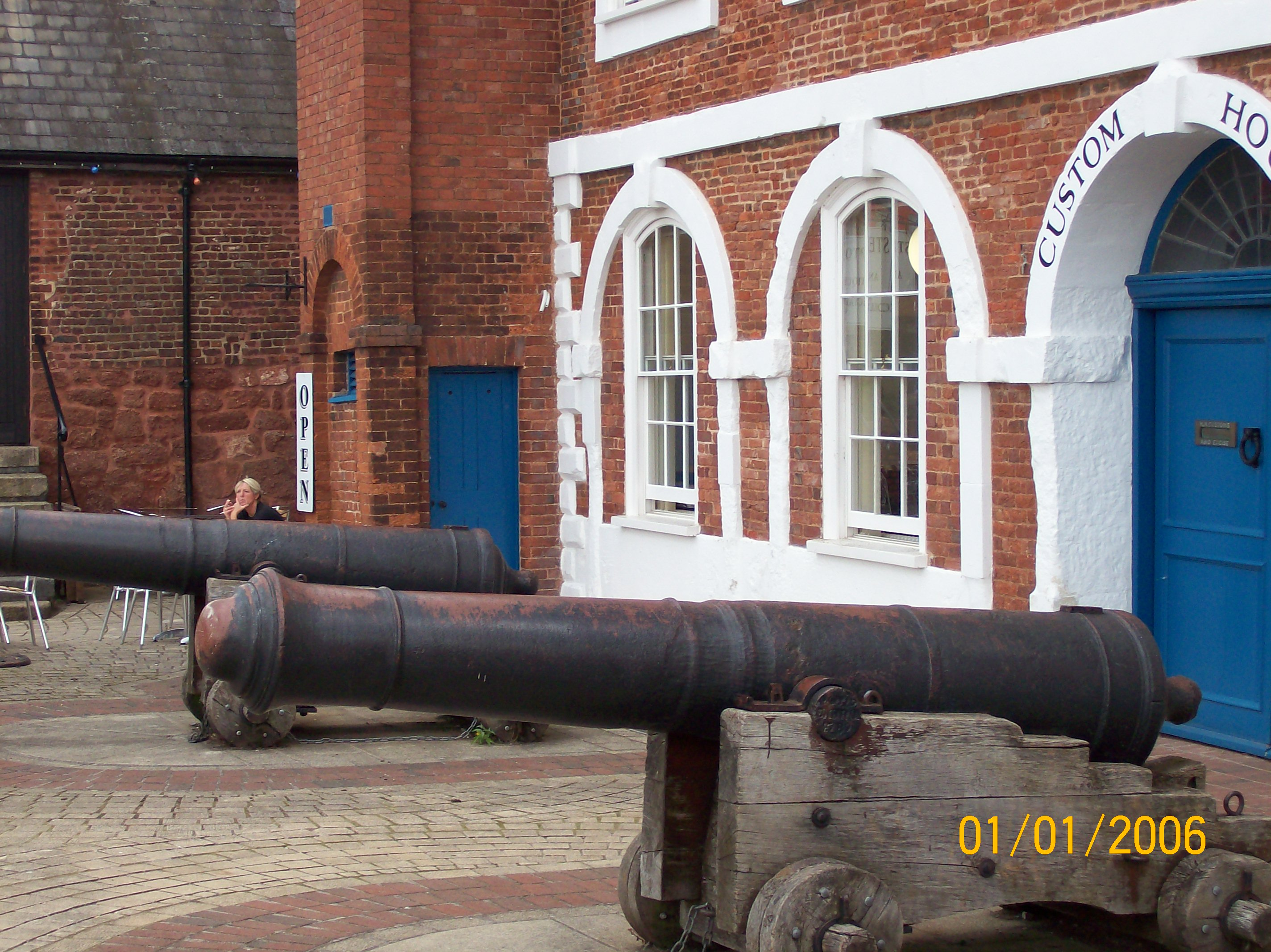 an ancient cannon in the port of Exeter city